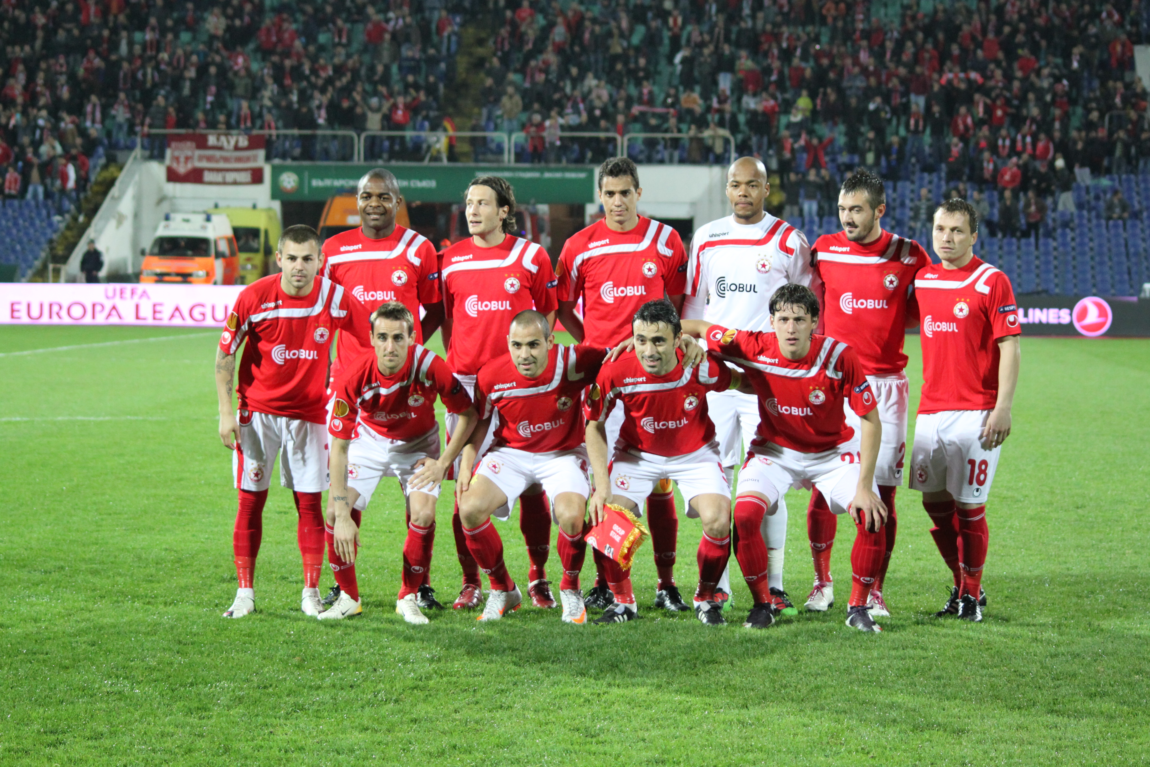 CSKA Sofia, 2-12-2010